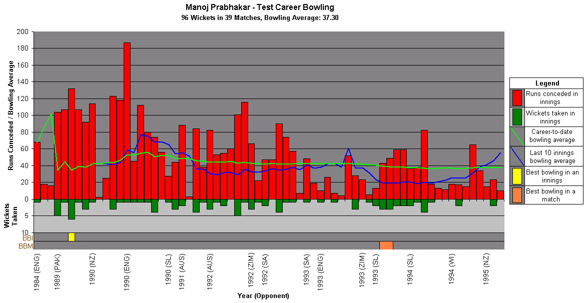 A graph that shows Manoj Prabhakar's test career bowling statistics and how they have varied over time. It was created by Masai 162. This image was created using Microsoft Excel and MS Paint. Source Data obtained from